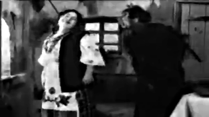 ScreenShot from Ночь пе́ред Рождество́м, Noch pered Rozhdestvom(1913 film) The Night Before Christmas in this scene of movie Ivan Mozzhukhin (demon) and Lidiya Tridenskaya (Solokha)